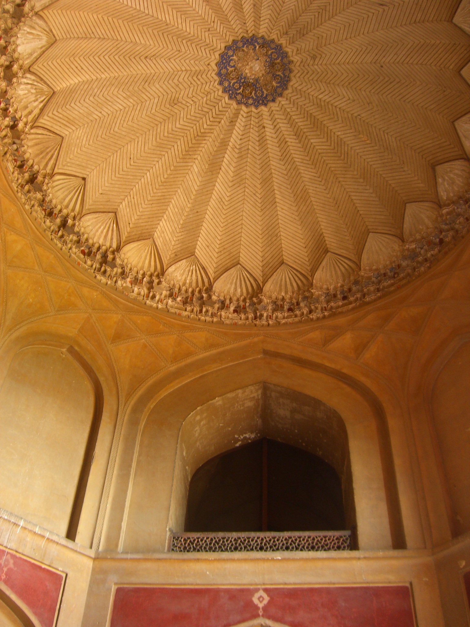 Inside view of the dome of Humayun's Tomb.